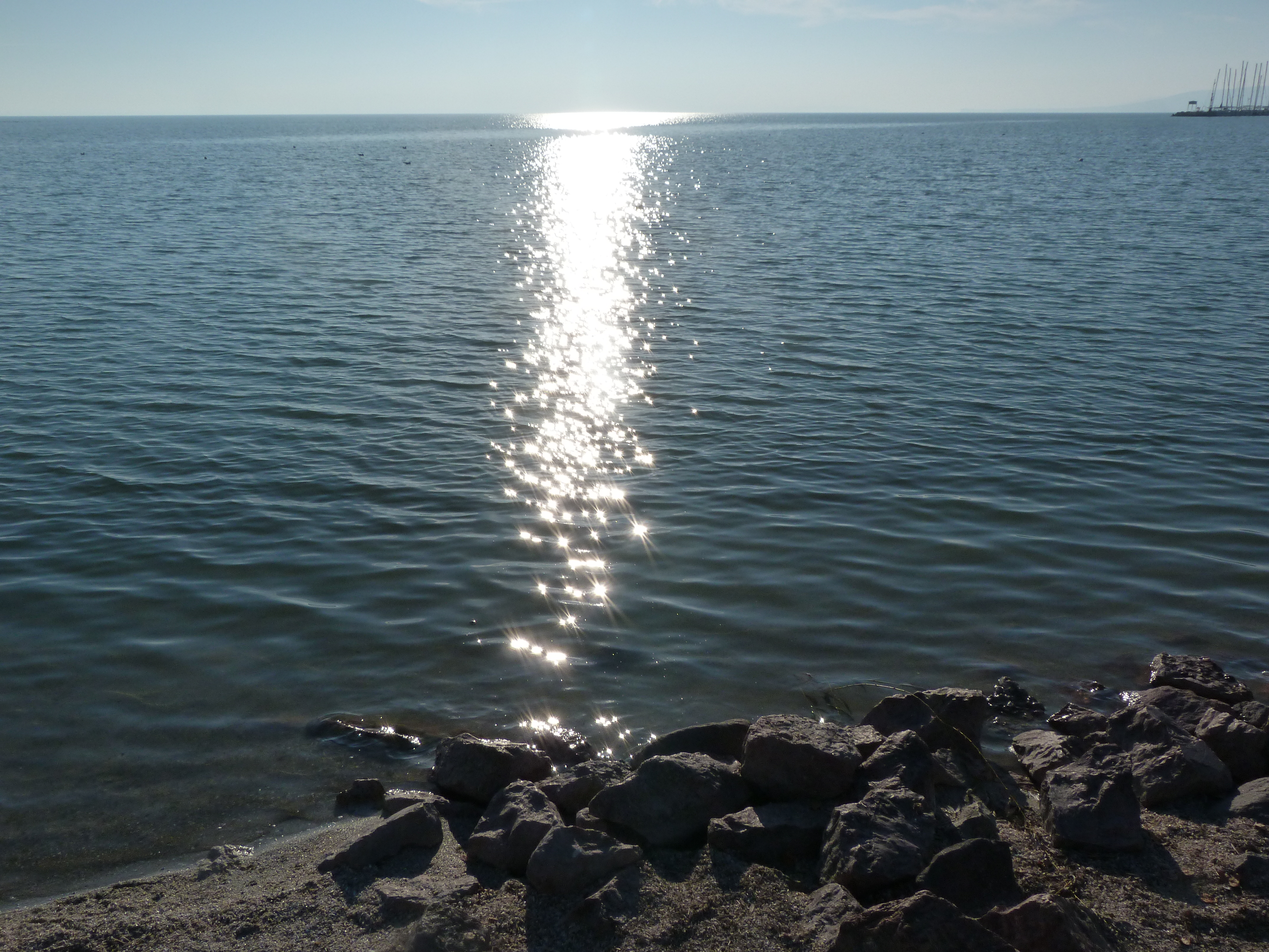 Golden bridge (Aranyhíd in Hungarian). The setting Sun, paints golden the Lake, imitating a golden bridge across the lake. Széchenyi park, Balatonkenese, Hungary